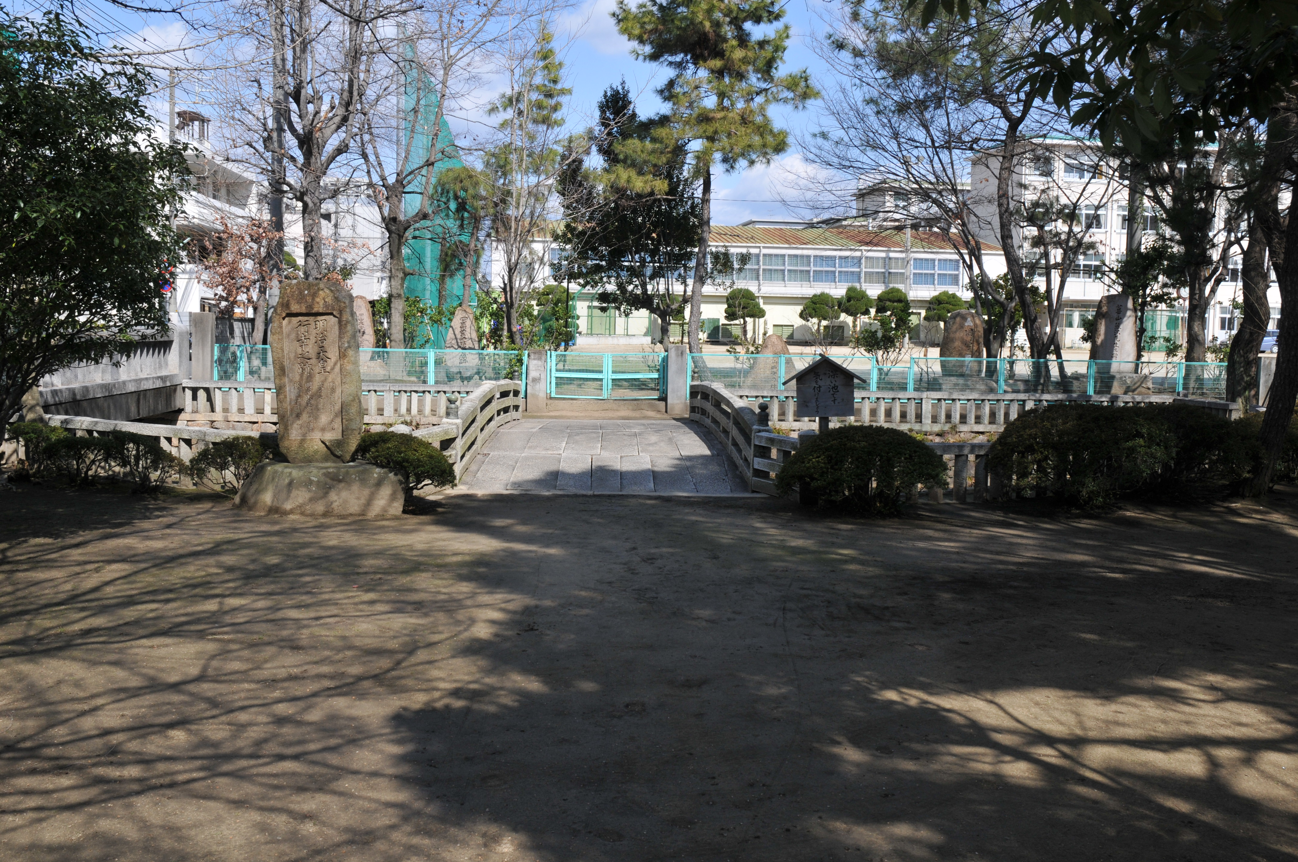 site of Okayamahan Hangaku